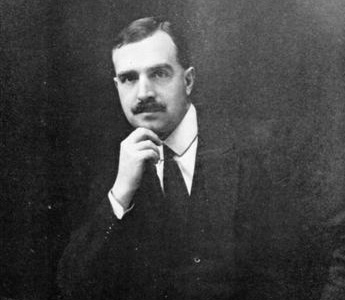 Picture of the British statesman and soldier Sir Arnold Wilson.